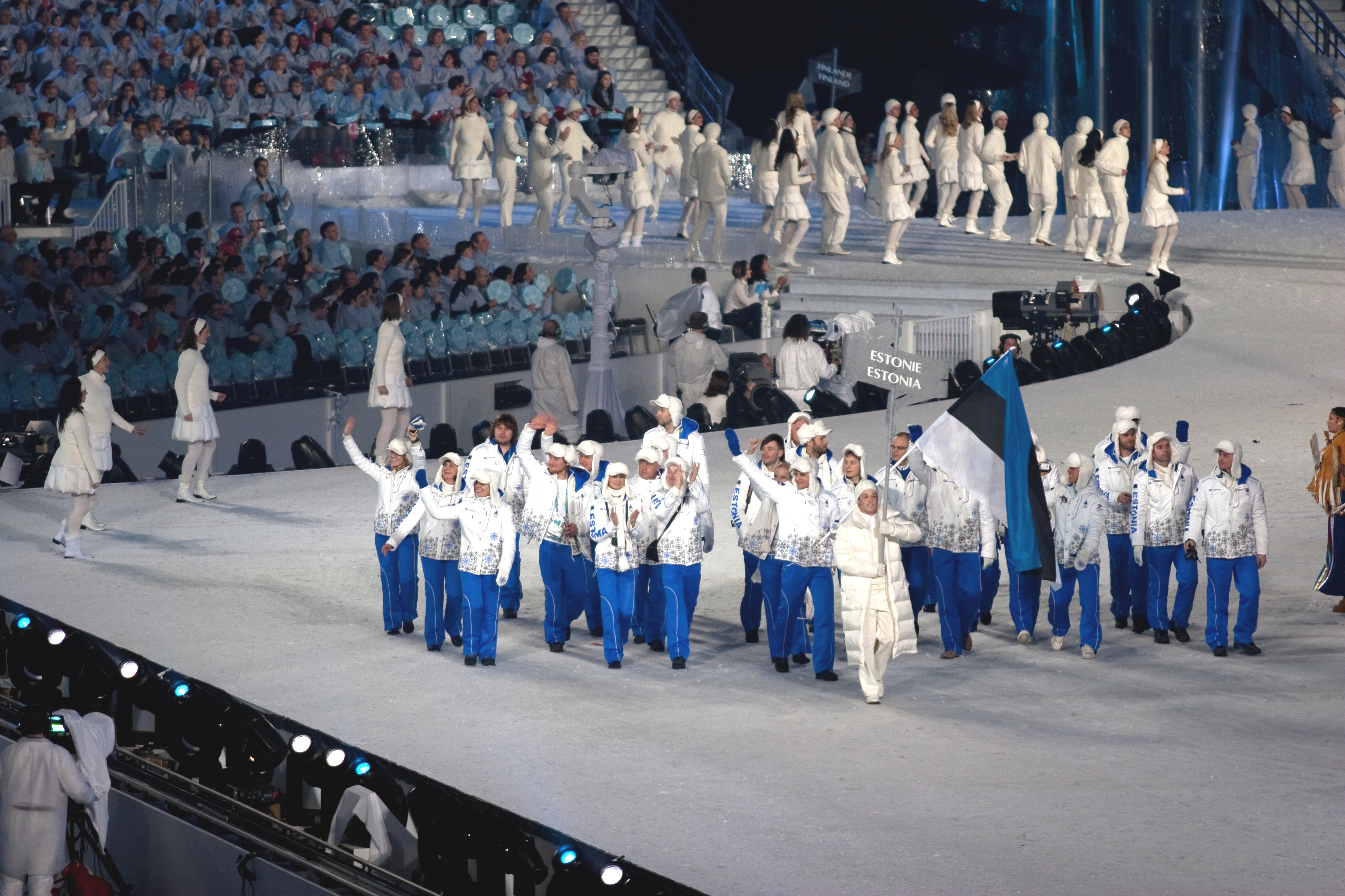 The athletes from Estonia entering the stadium at the opening ceremonies of the 2010 Winter Olympics